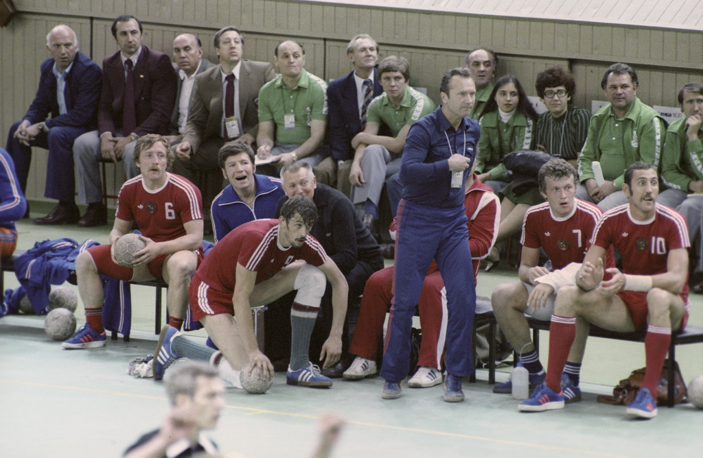 “USSR vs. Romania”. 1980 Olympic Games. Handball. USSR vs. Romania. Right: Anatoly Yevtushenko, coach of the USSR team.